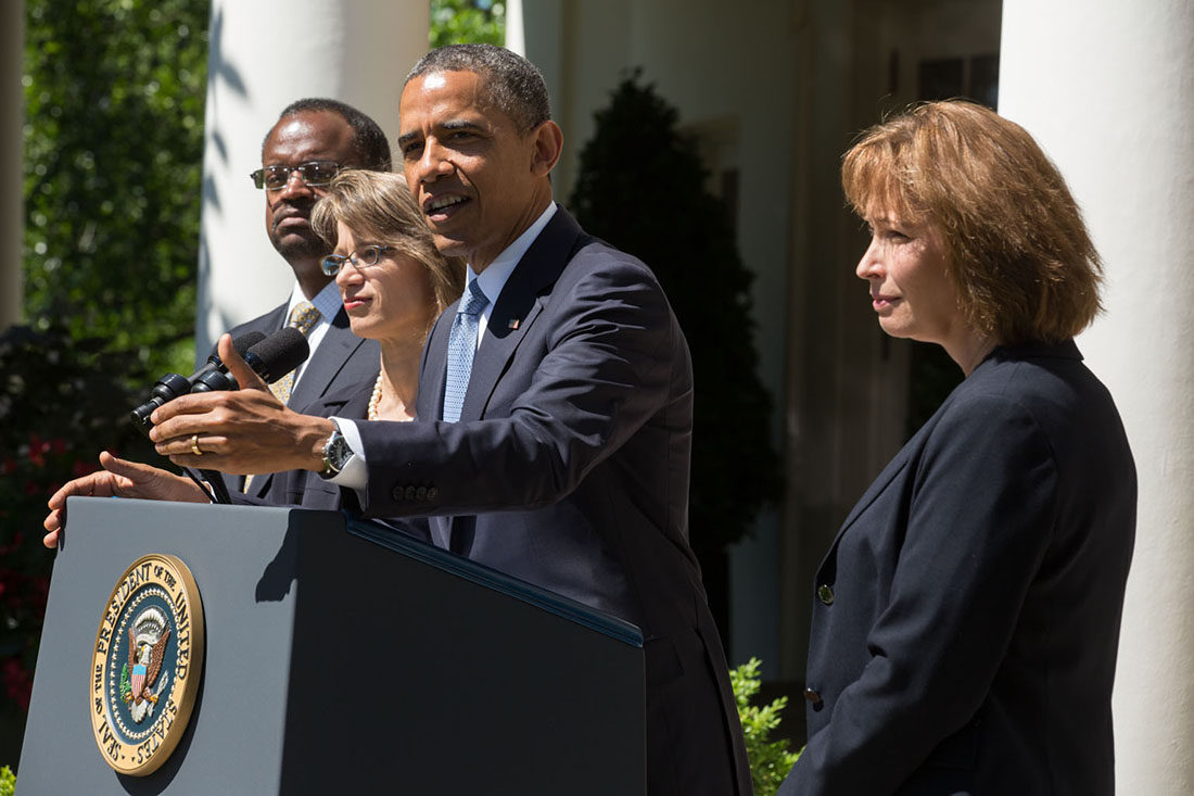 President Barack Obama delivers a statement announcing the nomination of three candidates for the U.S. Court of Appeals for the District of Columbia Circuit, in the Rose Garden of the White House, June 4, 2013. Nominees from left are: Robert Leon Wilkins, Cornelia "Nina" Pillard, and Patricia Ann Millett. (Official White House Photo by Chuck Kennedy)